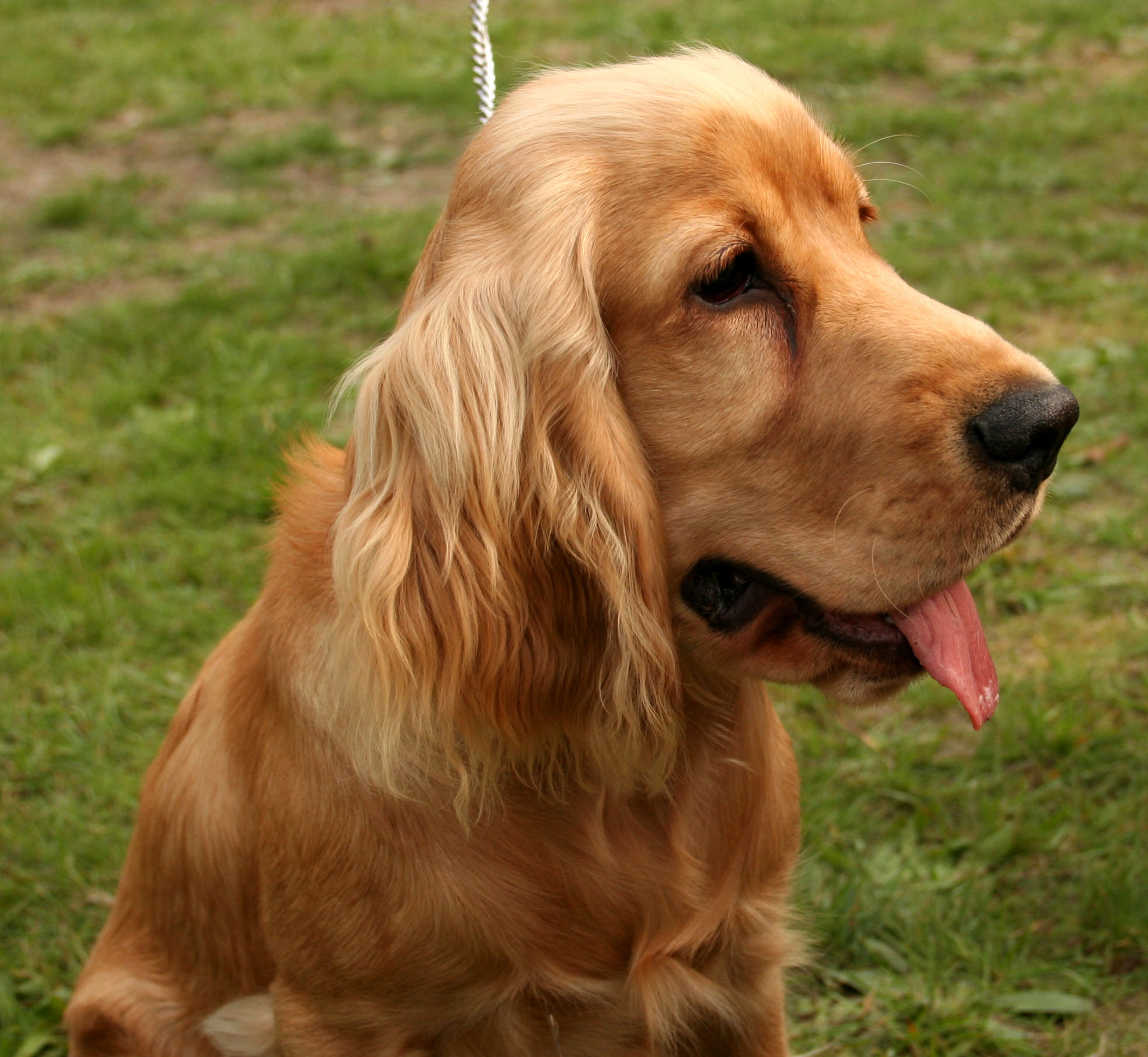 An English Cocker Spaniel at a dog show